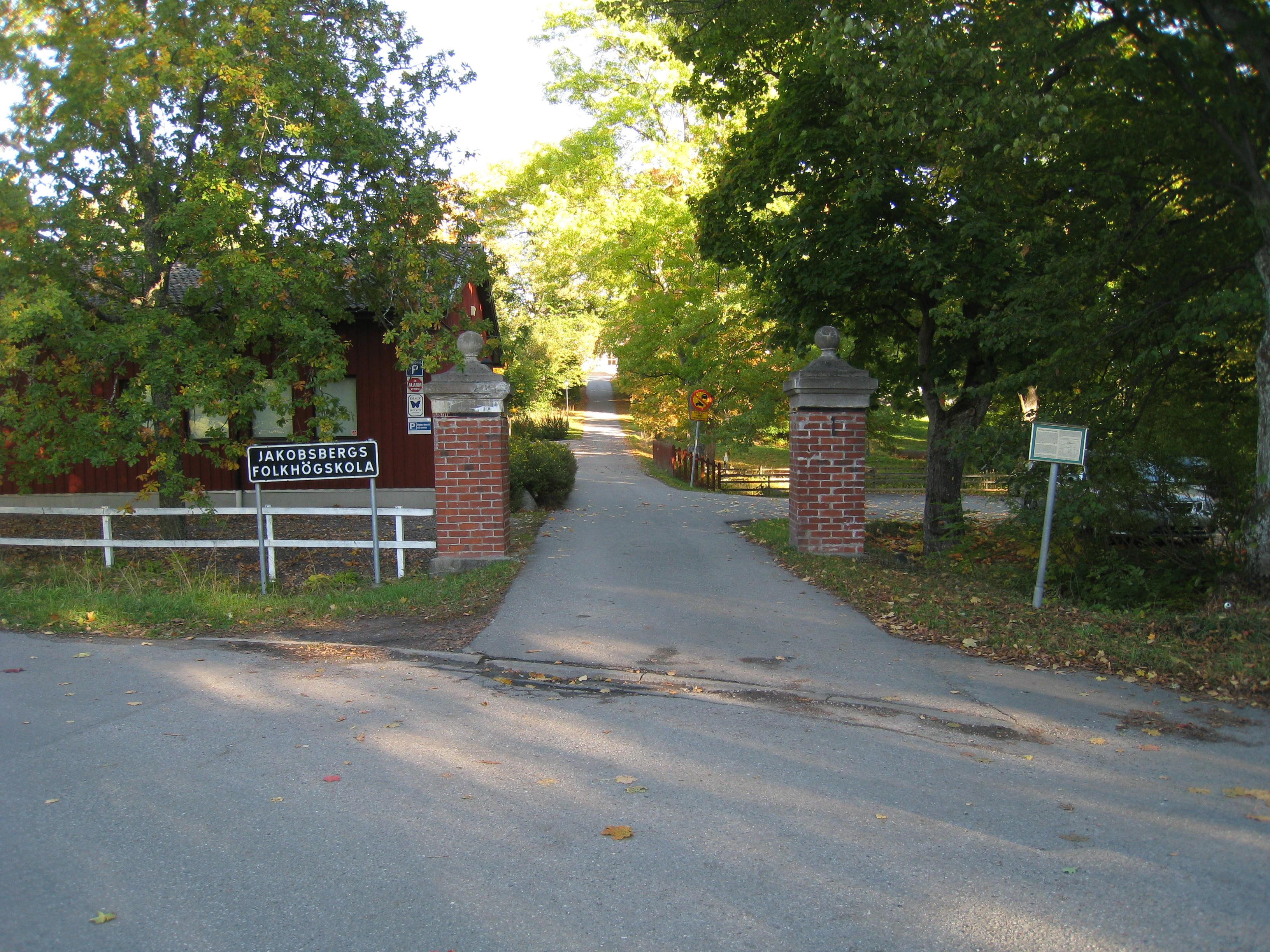 Folk high school Jakobsberg, Järfälla municipality, Sweden